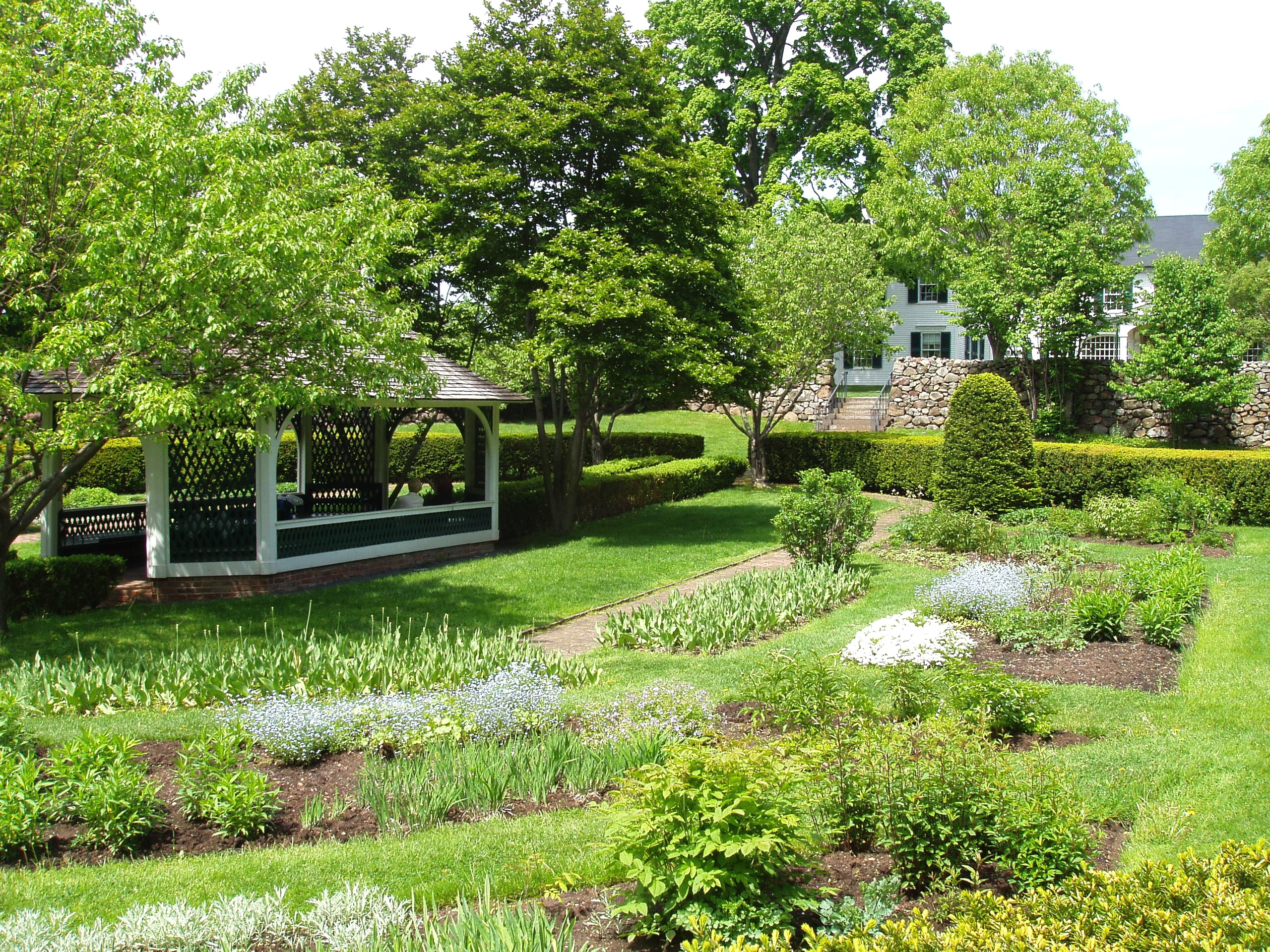 Hill-Stead Museum, Farmington, Connecticut, USA. Sunken garden, looking toward house.